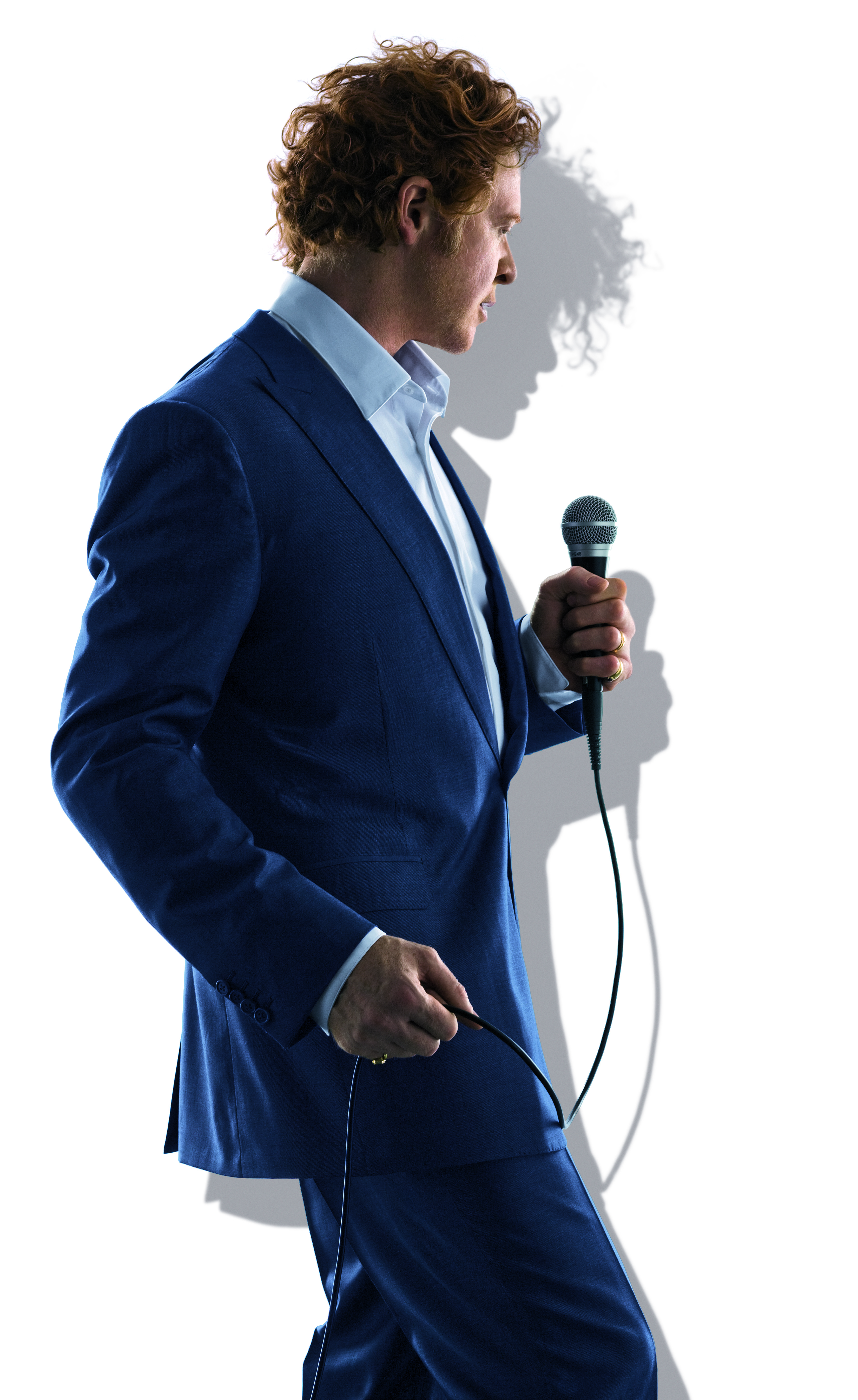 Mick Hucknall in 2010